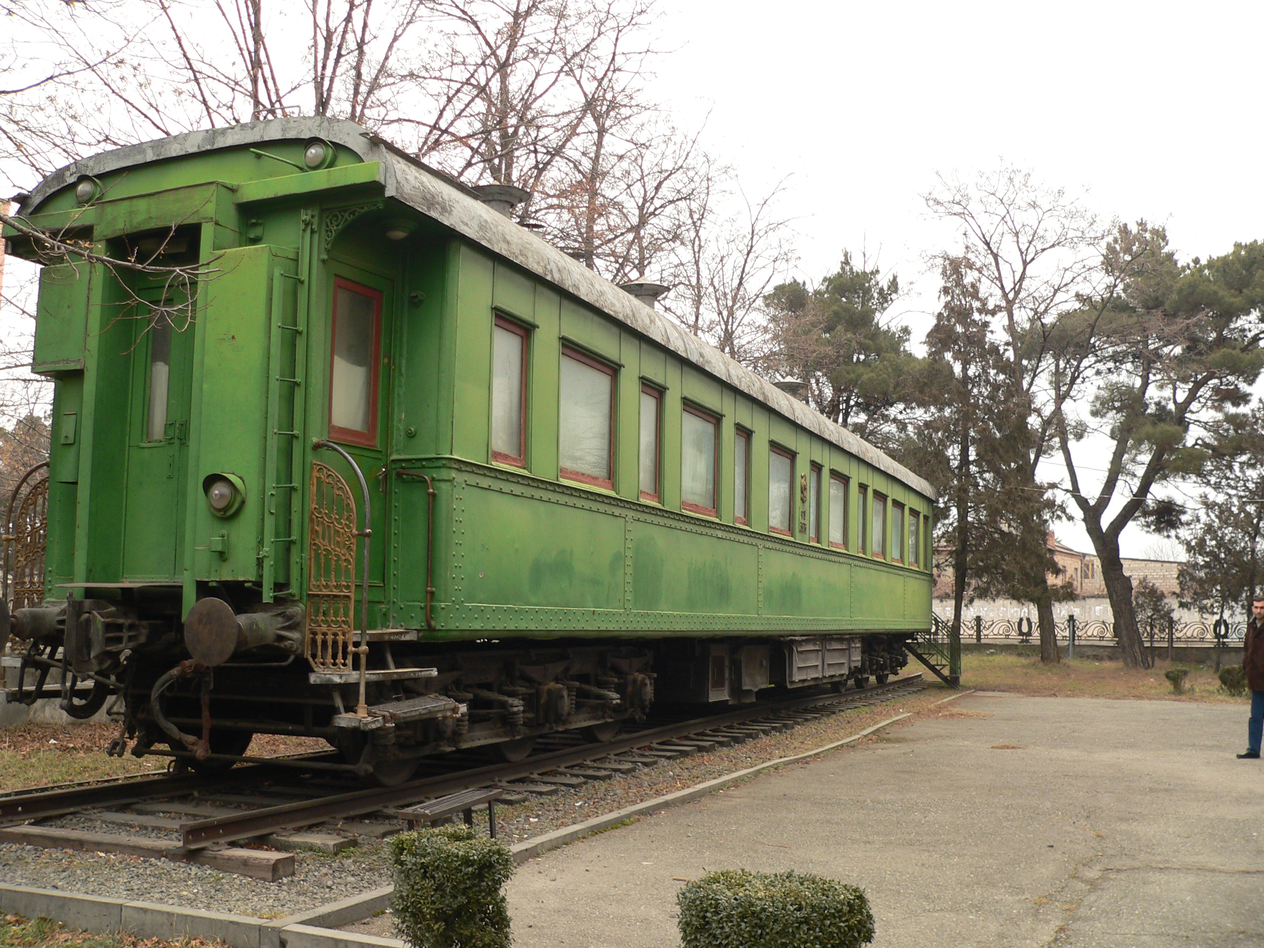 Stalin's personal armourd coach. Stalin's house museum in birth-place, Gori, Georgia